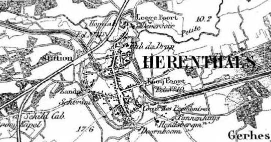 Map before the Albert Canal was built in the 1930's